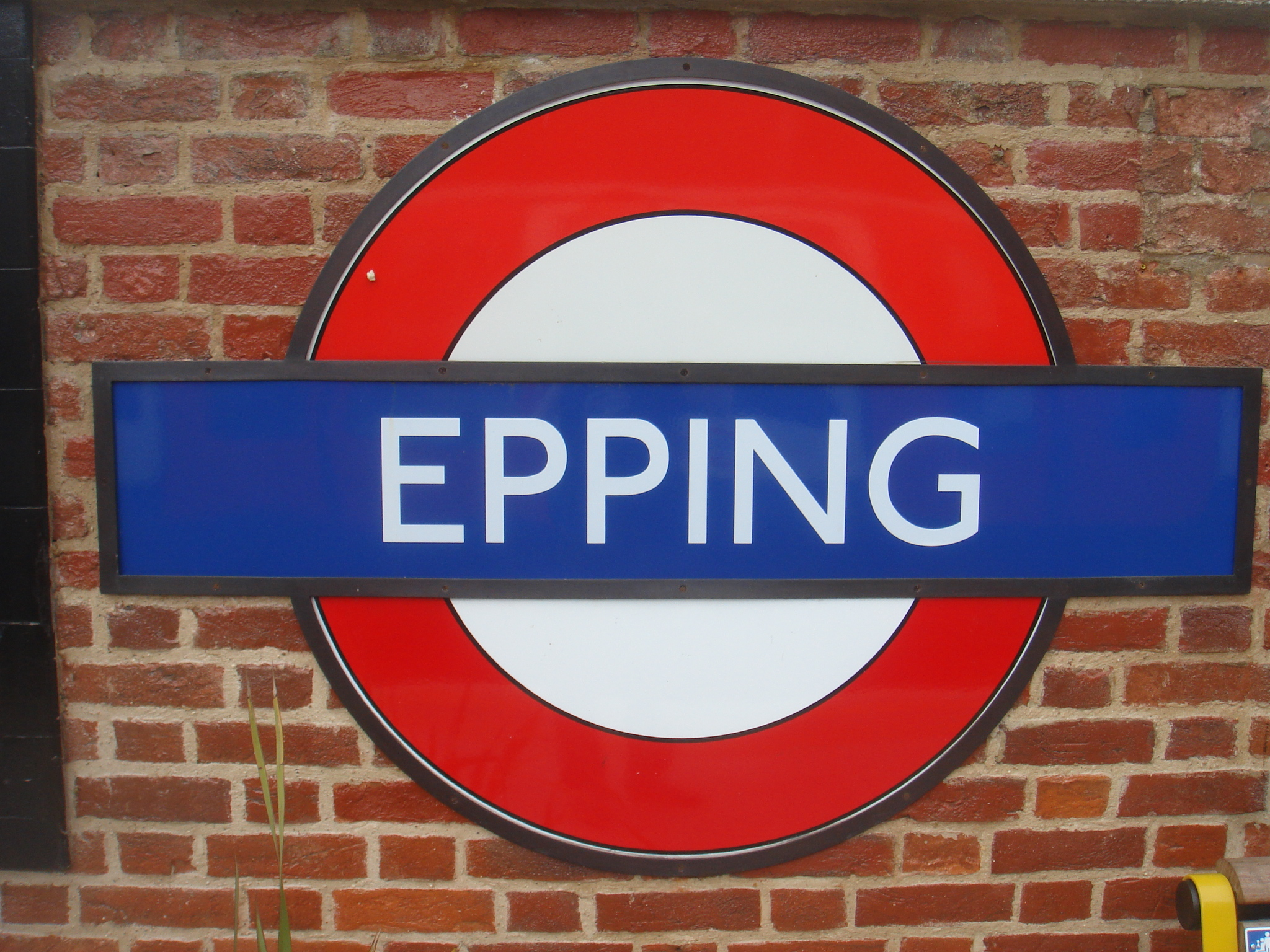 The roundel for Epping tube station